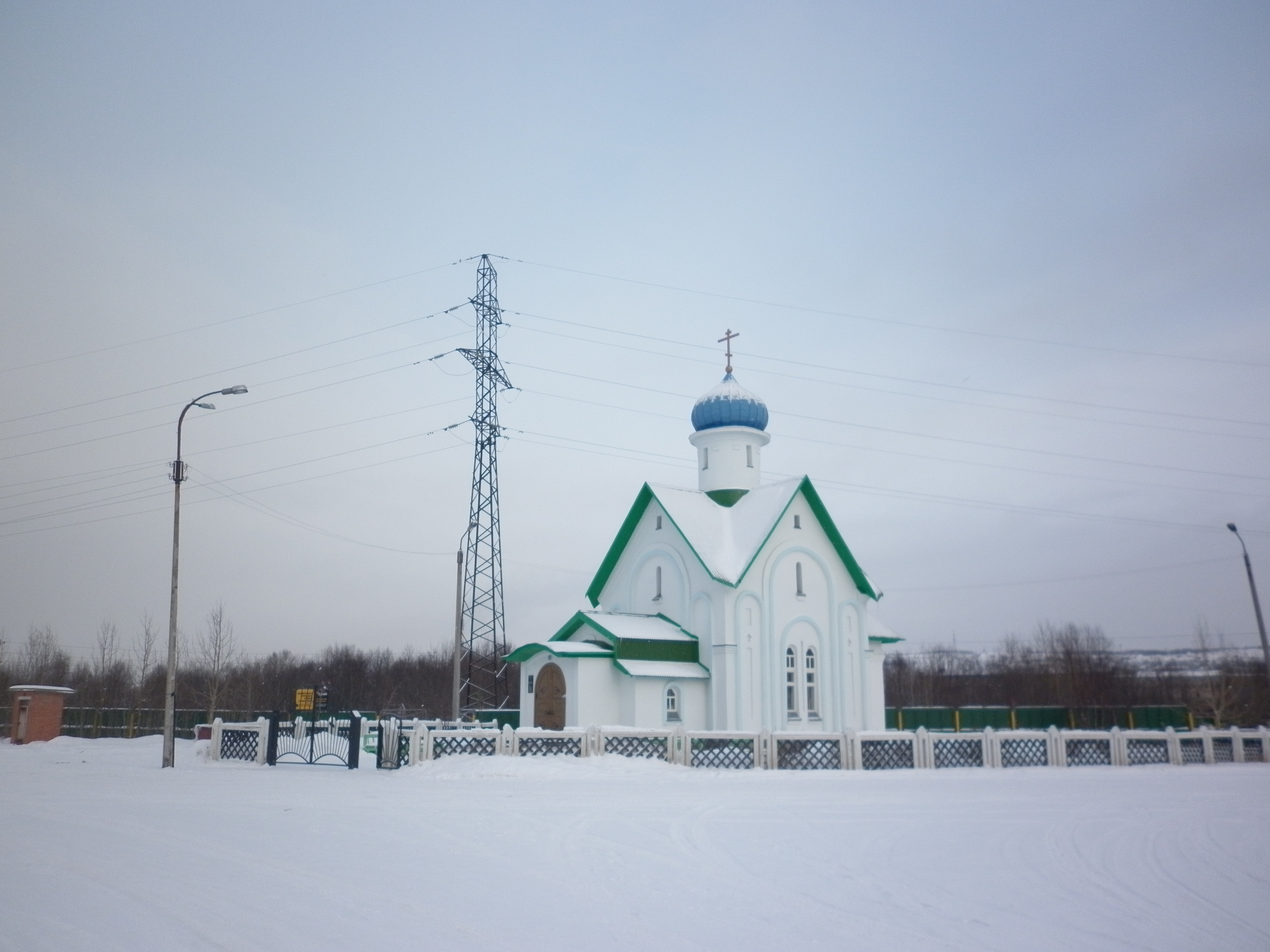 Построена в 2001 году.